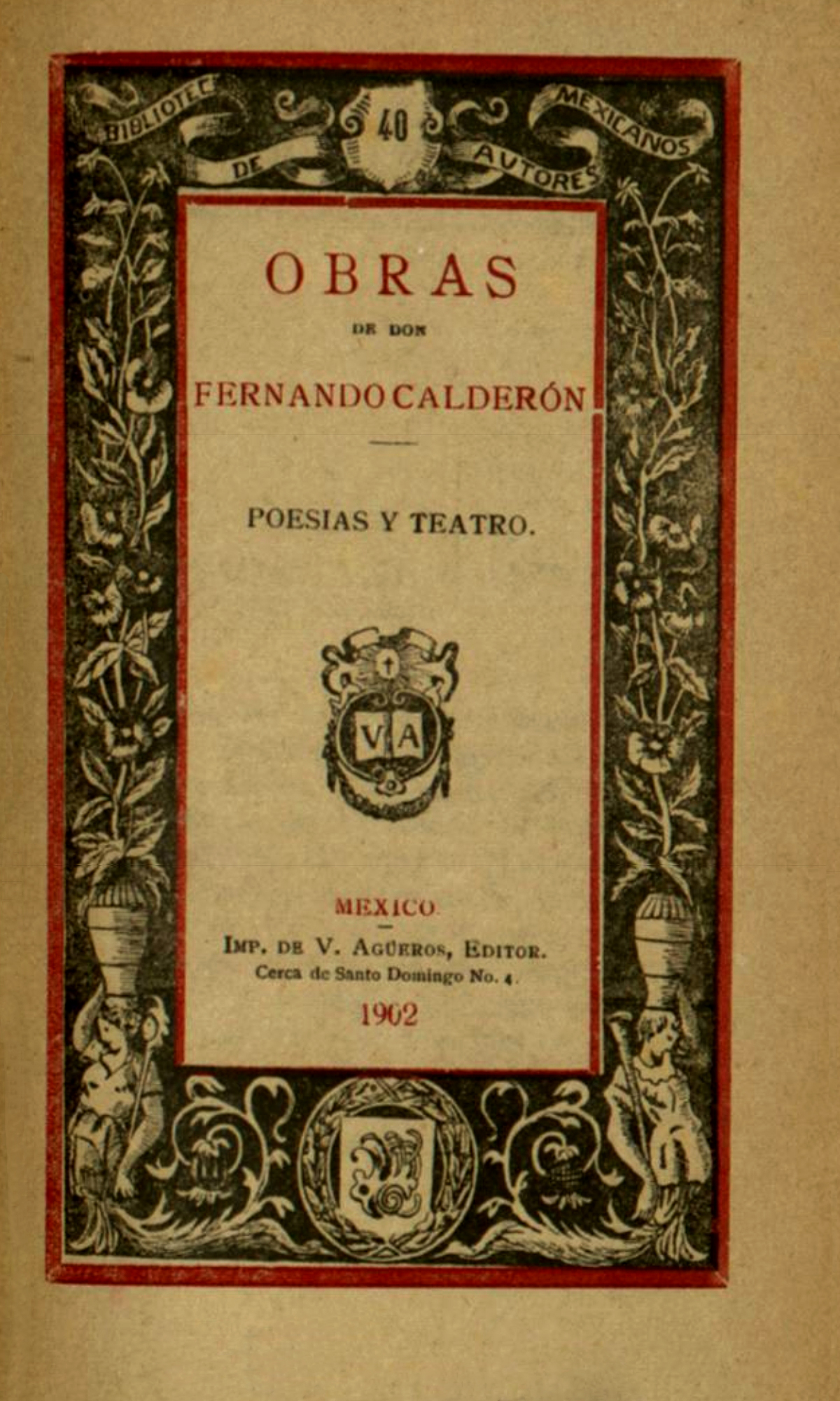 Bookcover Works D Fernando Calderón, 1902